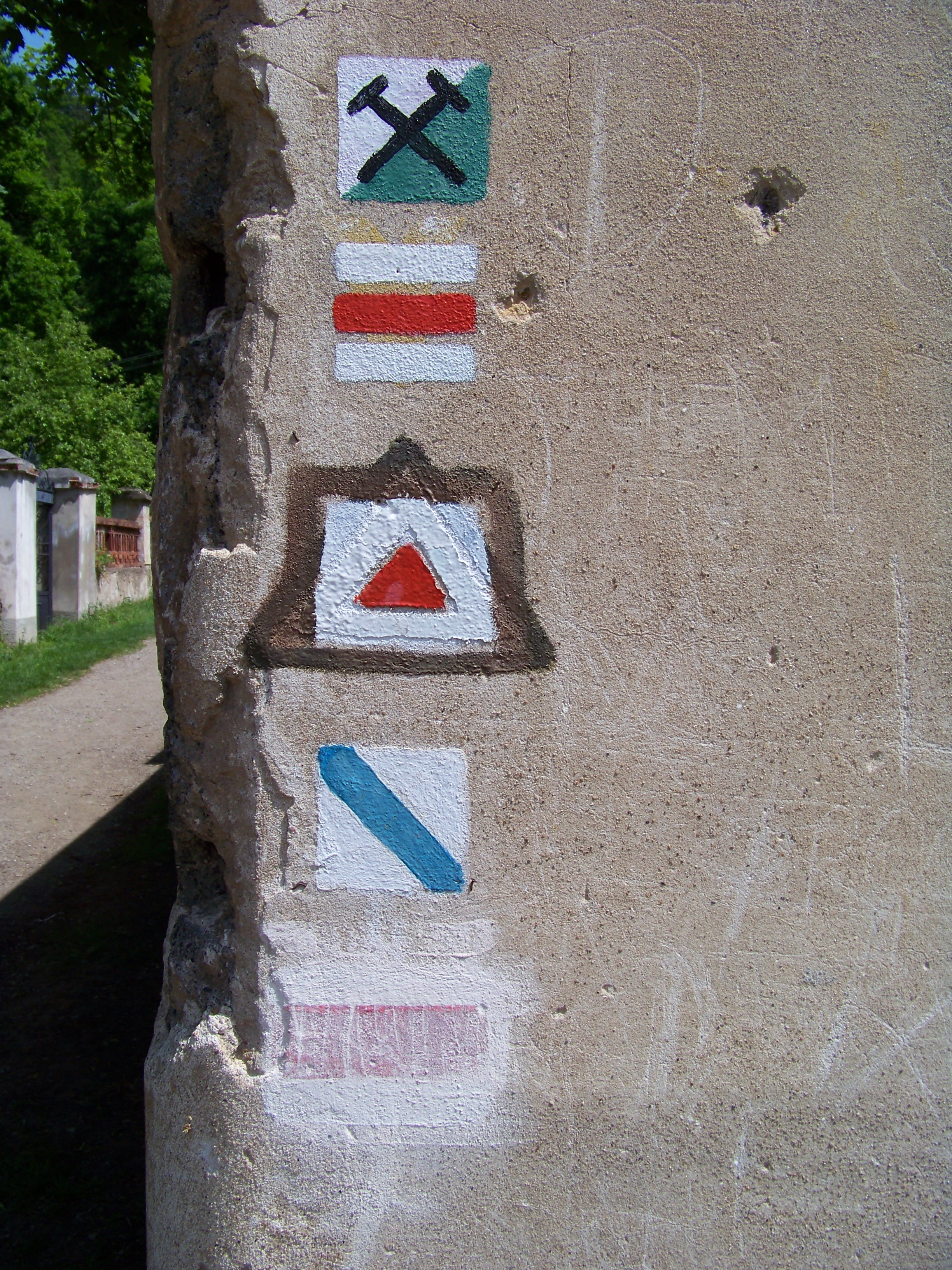 Svatý Jan pod Skalou, Beroun District, Central Bohemian Region, the Czech Republic. Hiking signs.